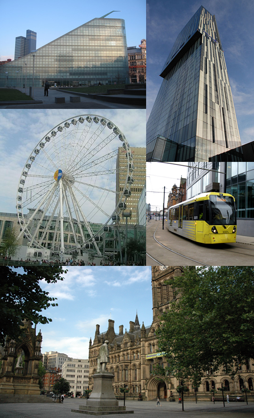 A montage of the city of Manchester in England, consisting of the following files (clockwise from top-left): File:The Urbis Building - .uk - 332225.jpg - Urbis File:Manchester Beetham Tower Hilton 16-10-2009 17-52-50.JPG - Beetham Tower/The Hilton File:No 3001 Manchester Metrolink tram.jpg - a Metrolink tram File:Albert-Square-Manchester.jpg - Albert Square File:Wheel of Manchester 2008.jpg - Wheel of Manchester